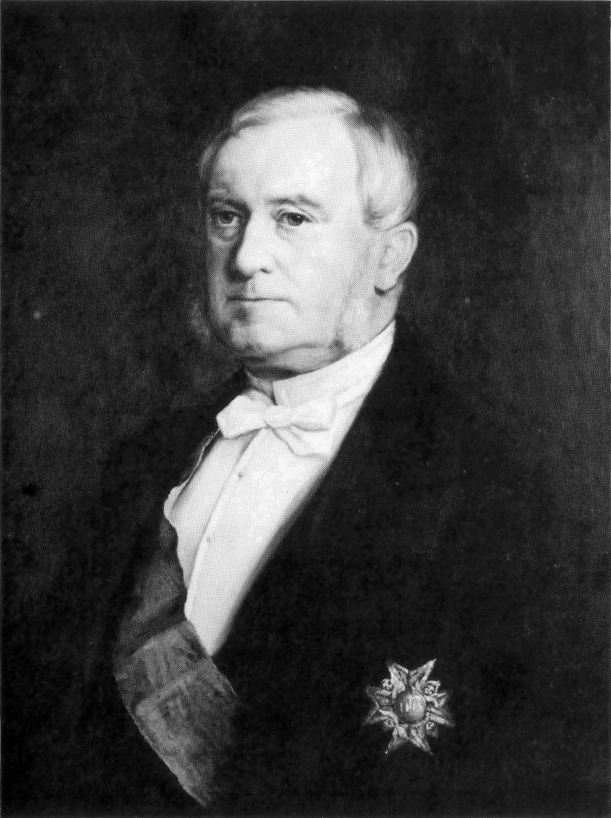 Louis De Geer (1818-1896) portraited in 1884 by Elis Jacobson. Original painting is located at Uppsala University, Sweden.